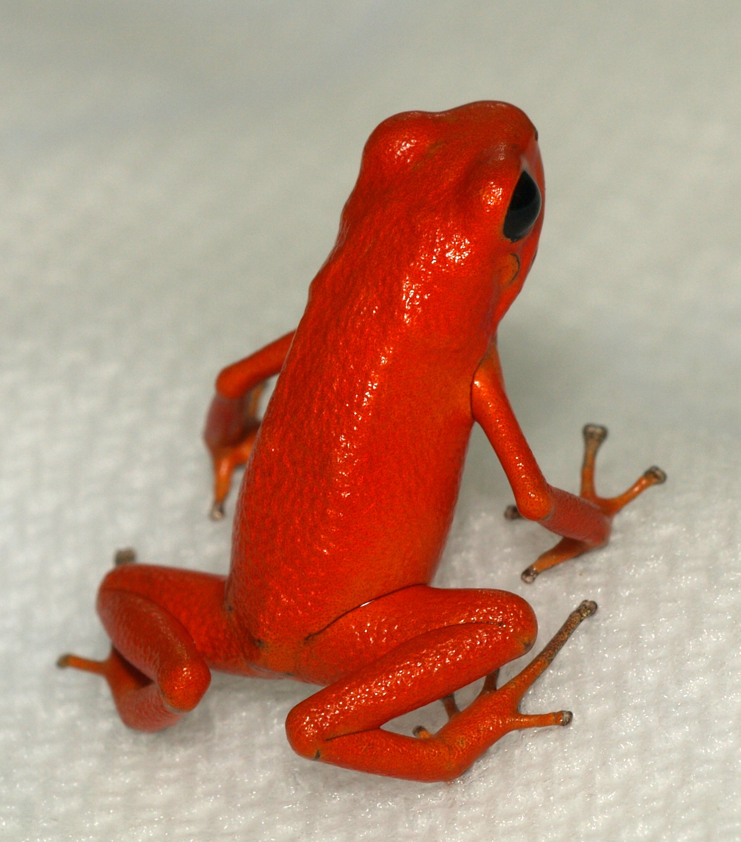 Oophaga pumilio from Cologne Zoo, Germany